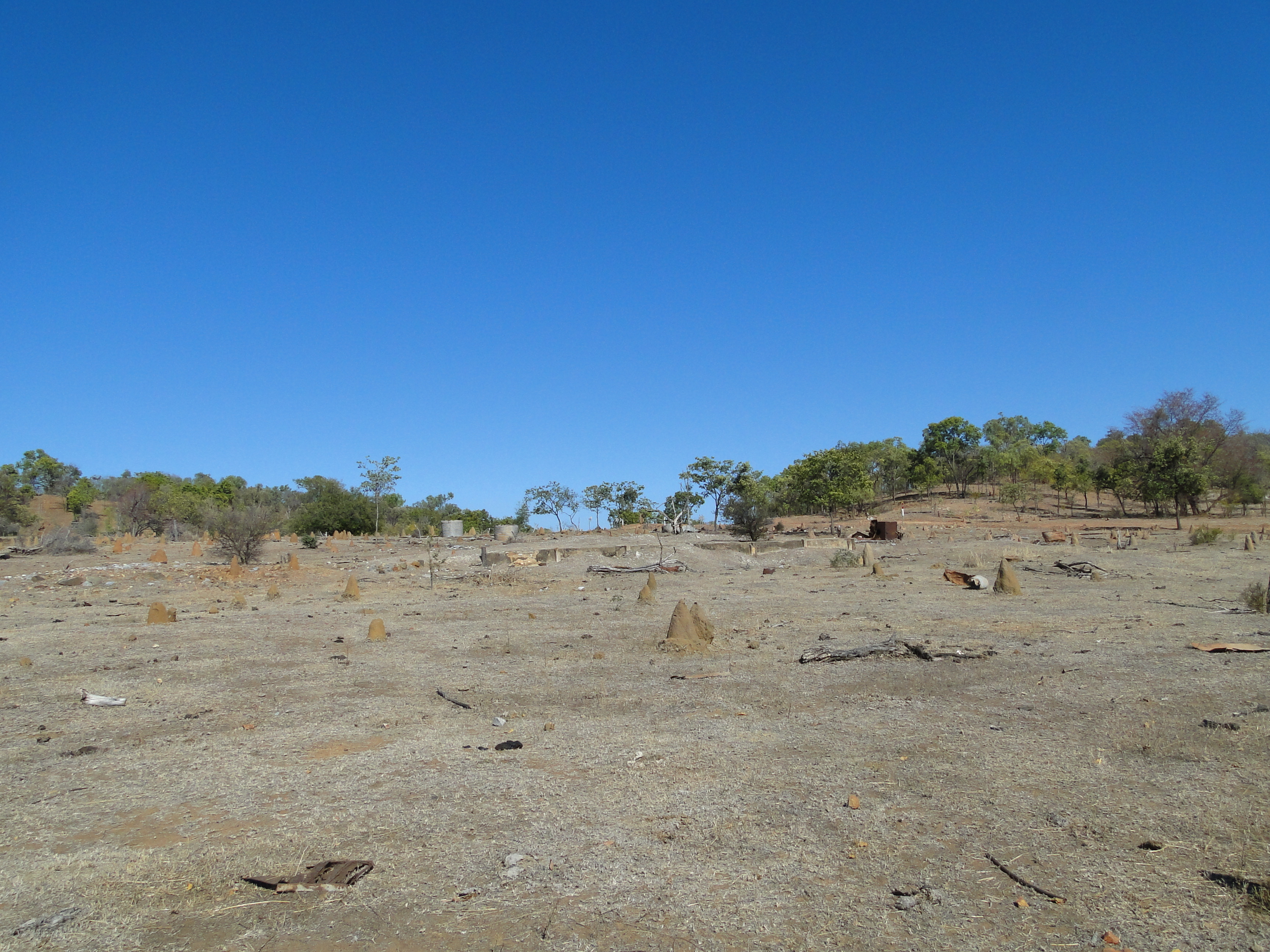 View across the ruins of the former mining town Mungana, northern Queensland, Australia. Concrete foundations are visible.